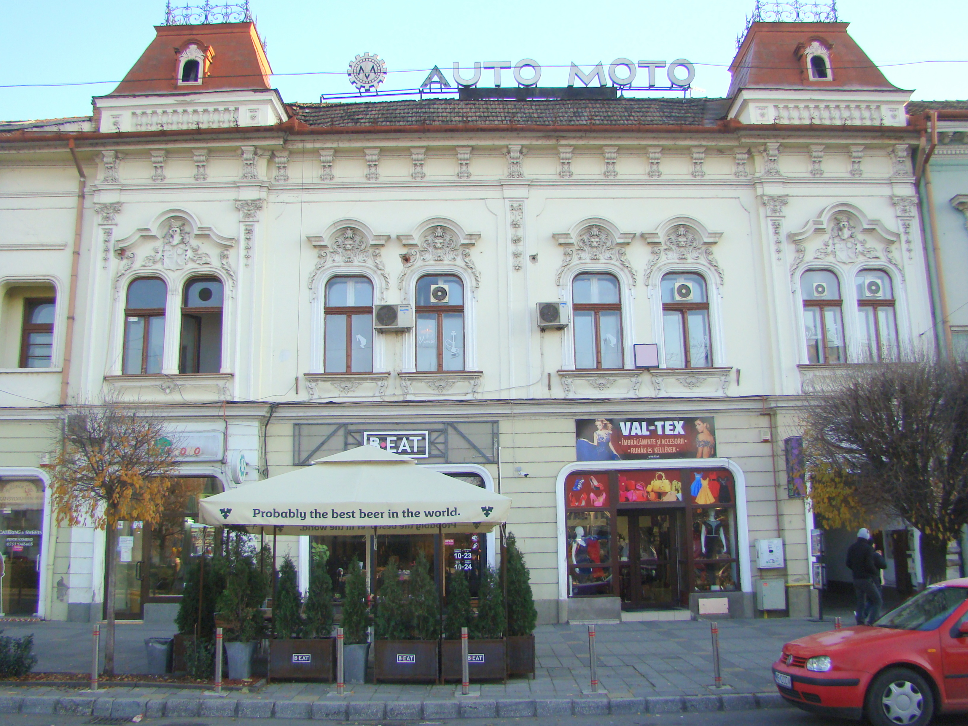 House, historic monument, in Târgu Mureș, Piața Trandafirilor 52